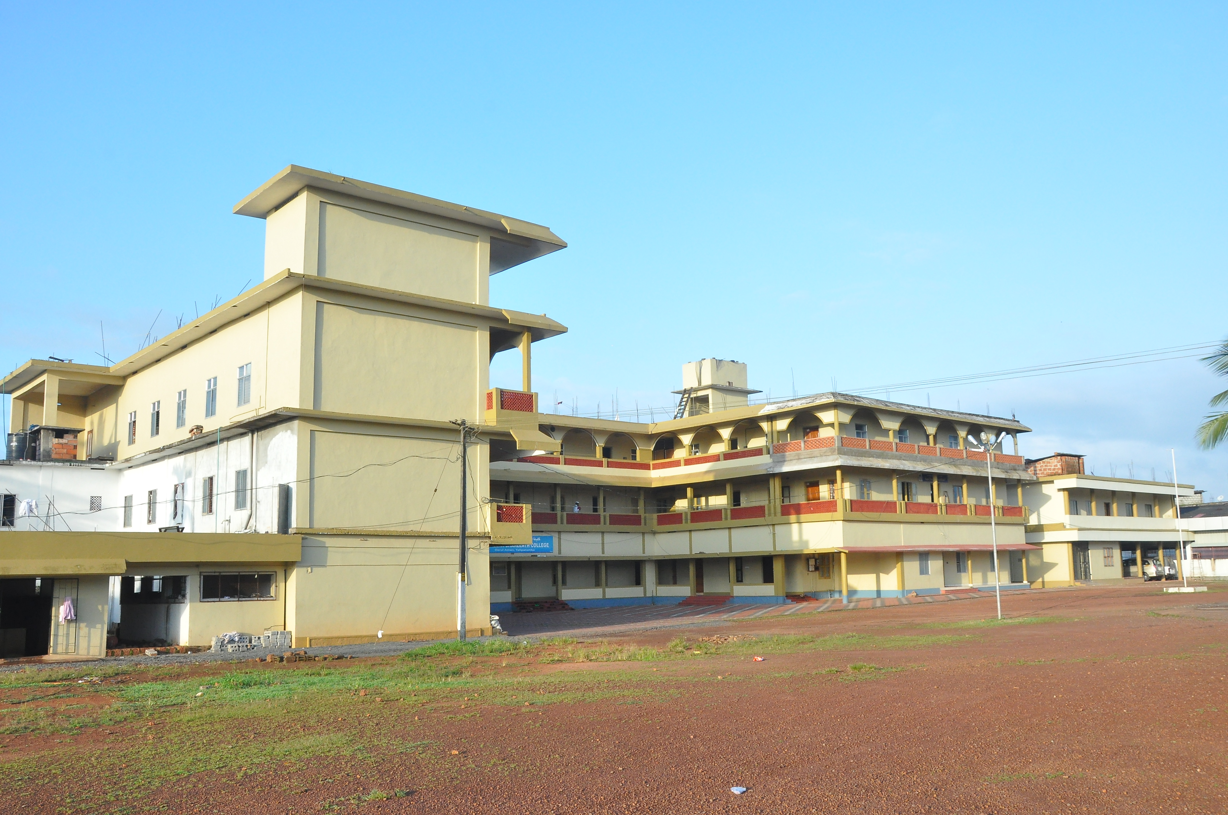 New block for Al-Maqar Dawa college and Public library at Darul Aman campus